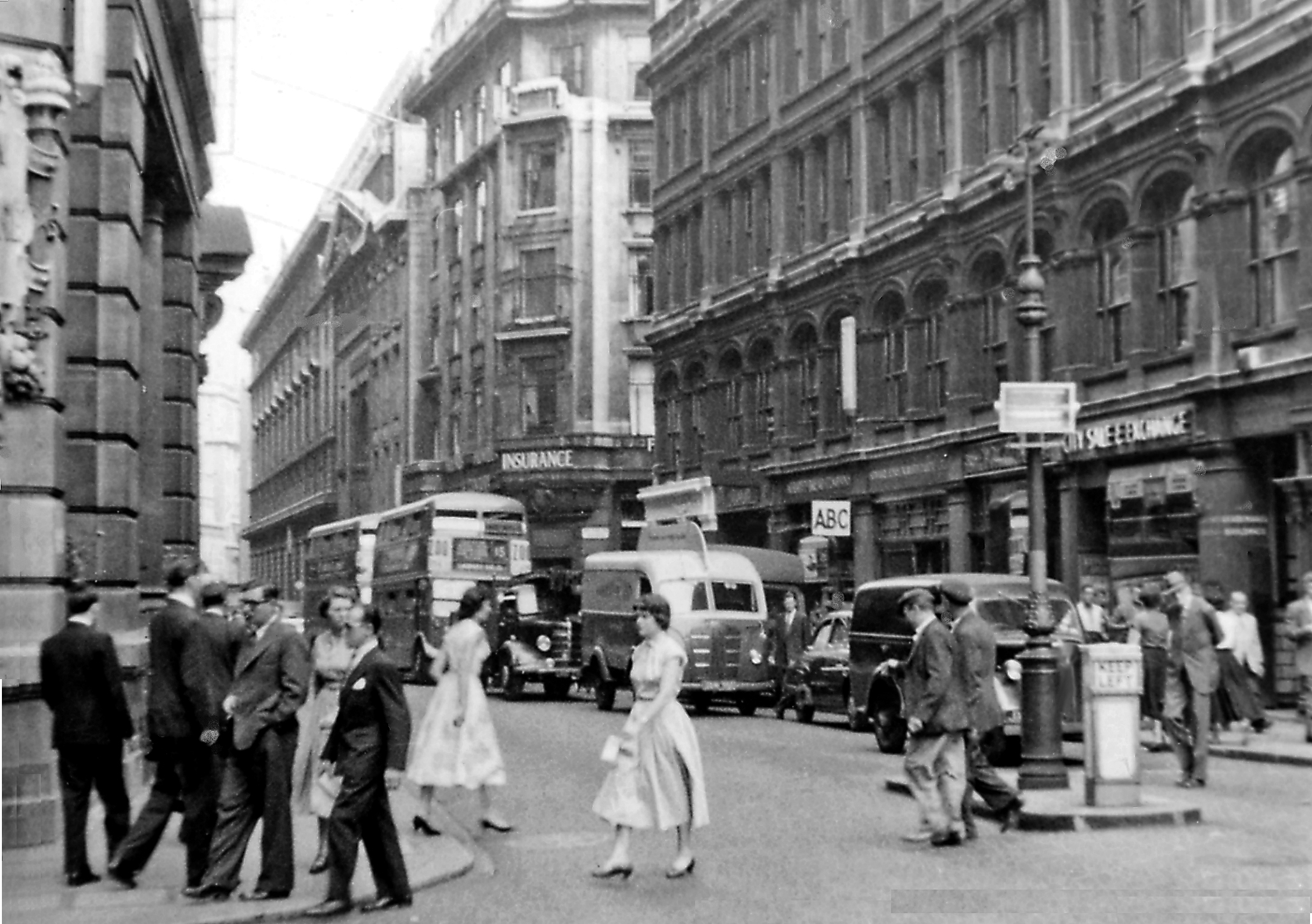 Leadenhall Street from Bishopsgate, 1955. The view is eastward and shows the City - on a hot summer's day, seething with traffic and people (all smartly dressed).